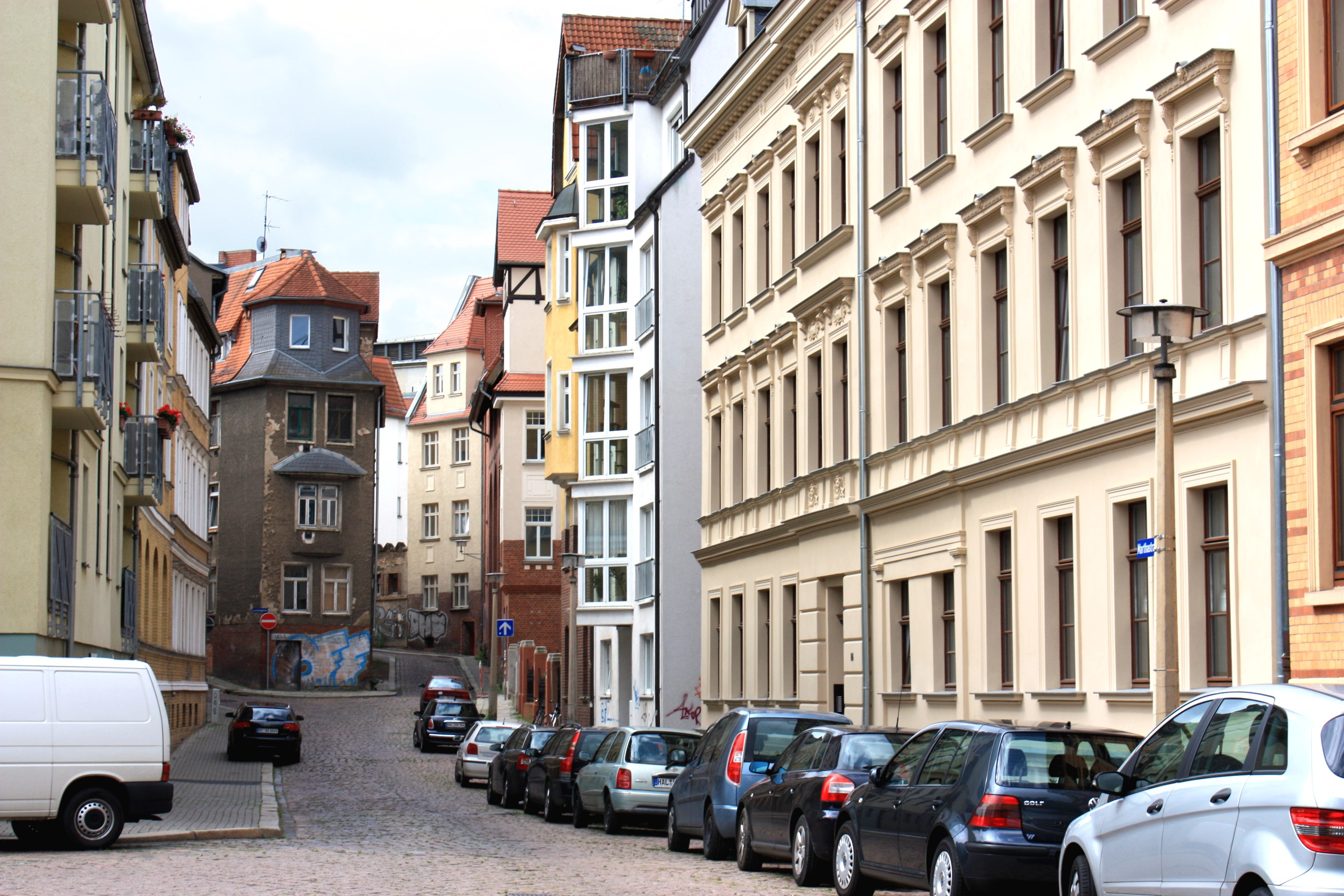 Halle (Saale), Marthastraße, view from the Adam-Kuckhoff-Straße